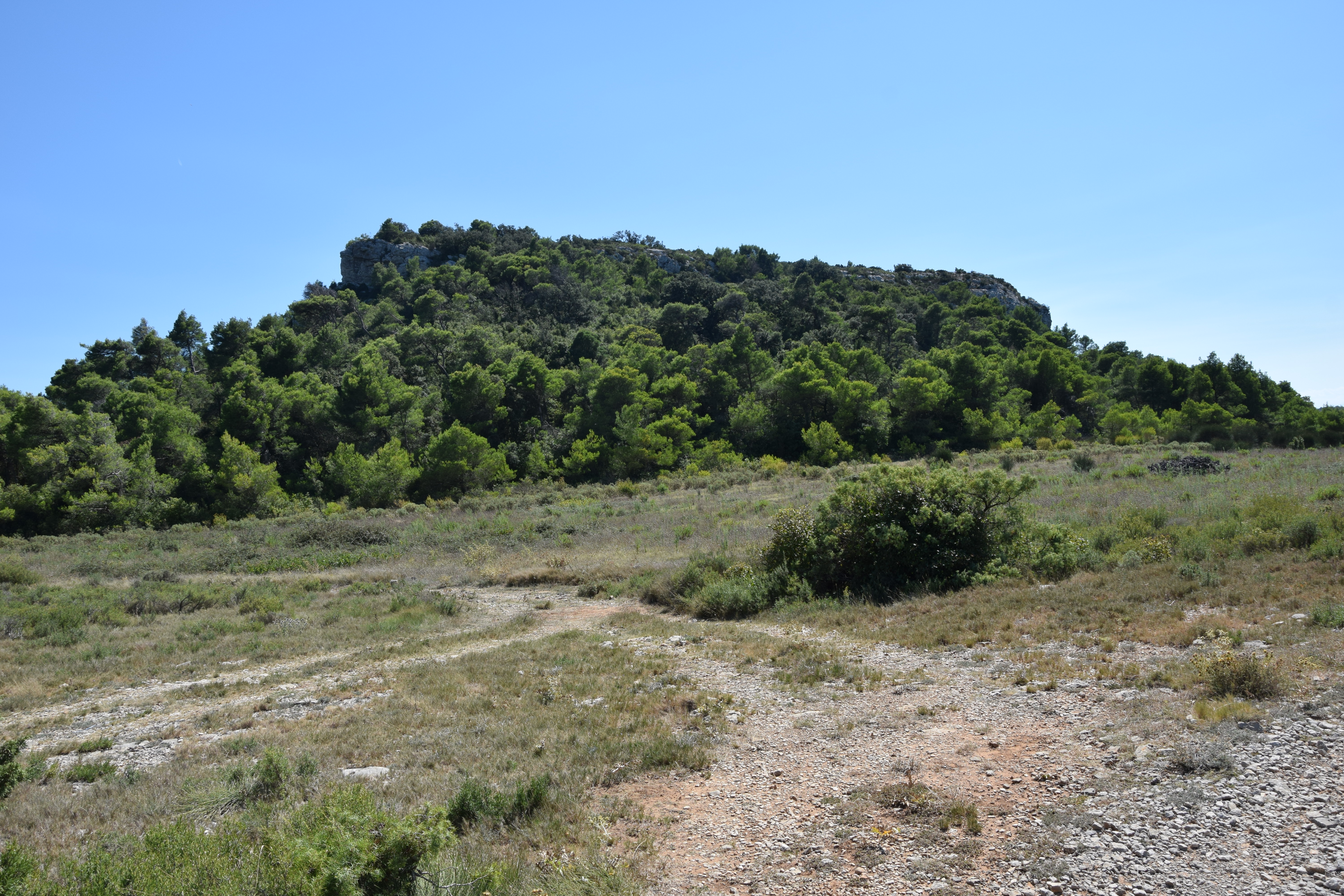 Pech Redon, Massif de la Clape, south of France